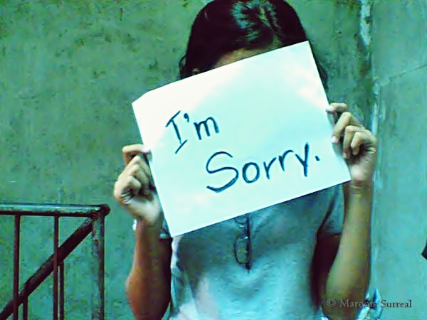 I'm Sorry Image